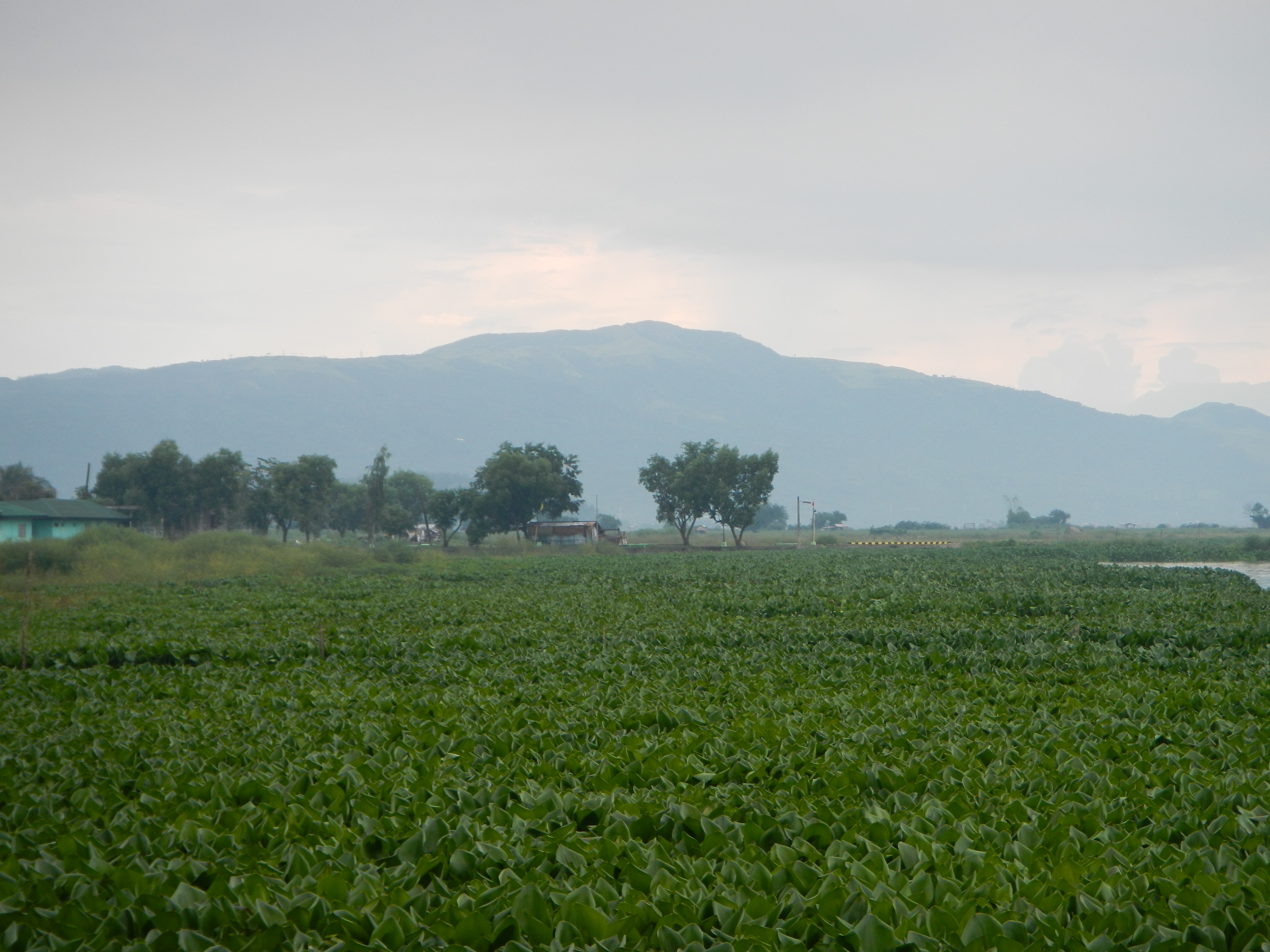 Boulevard, Barangay Wawa, Pilillia, Rizal, and Laguna de Bay[1] - at the foot of --- Mount Sembrano[2] (is a mountain - List of mountains in the Philippines --[3] located between Rizal and Laguna of the CALABARZON region [4] in the Philippines. Mt. Sembrano is situated about 60 kilometres (37 mi) east by road from the capital city of Manila. Mount Sembrano lies between the boundaries of the towns of Jalajala and Pililla in Rizal province and the town of Pakil in Laguna. The mountain sits at the helm of Jalajala peninsula along the shore of Laguna de Bay[5] and is surrounded by the lake on three sides. Along with Talim Island, the mountain forms the southeastern rim of the Laguna Caldera). --- Pililla, Rizal [6] is a first class urban municipality in the province of Rizal,[7] Philippines with a population of 59,527 inhabitants in 9,001 households, and known as the Green Field Municipality of Rizal, just few kilometers away from Tanay, Rizal and subdivided into 9 barangays.Election results 2013 [8] Quisao / Land area: 73.90 km² Founded: 1583 Coordinates: 14°26'45"N 121°19'48"E Profile Pililla benefits from RE investment windfalls New wind farm in Rizal A visit to Sitio Bugarin, Pililla, Rizal Alternergy sets aside $380 million for two Rizal wind projects Alternergy Wind One Corporation will be investing $380 million for two wind power projects of 67-megawatt capacity each in Rizal province; the planned Mount Sembrano wind power facility will come next.